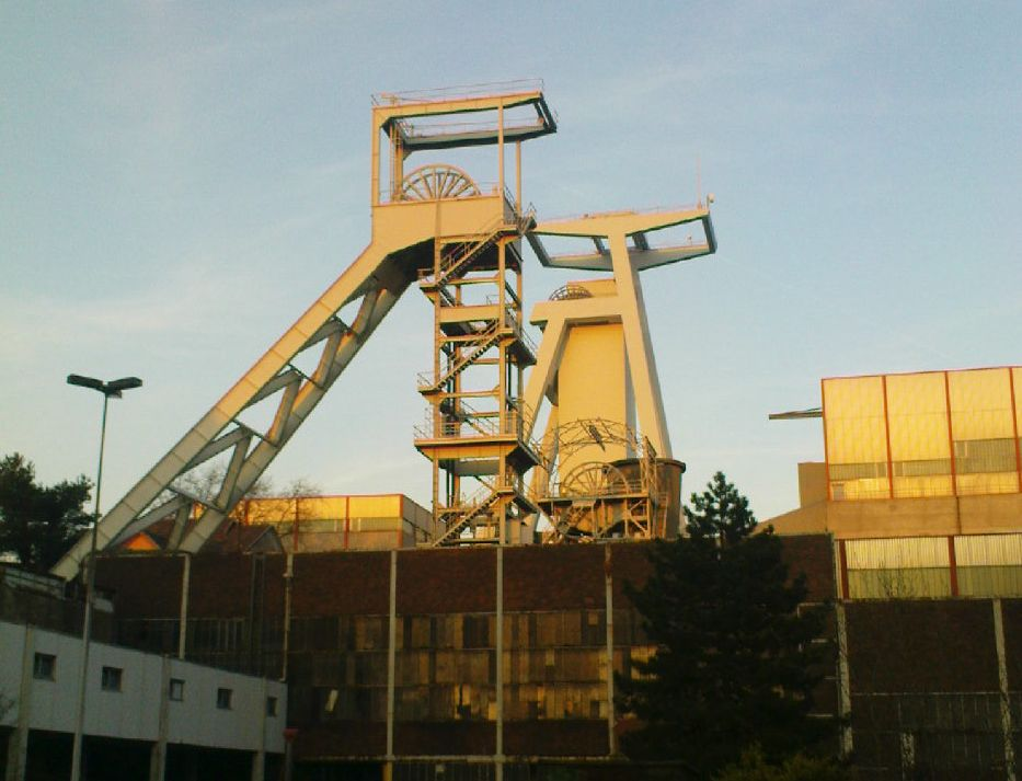 Goettelborn Coal Mine 1